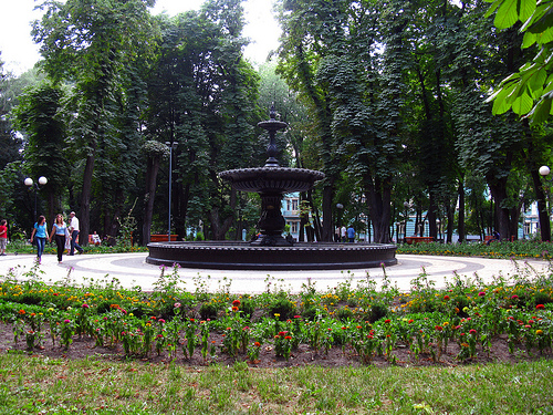 Fountain in Mariyinsky Park